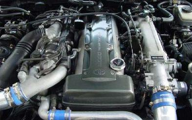 pic of under hood of my car to show what 2jzgte looks like